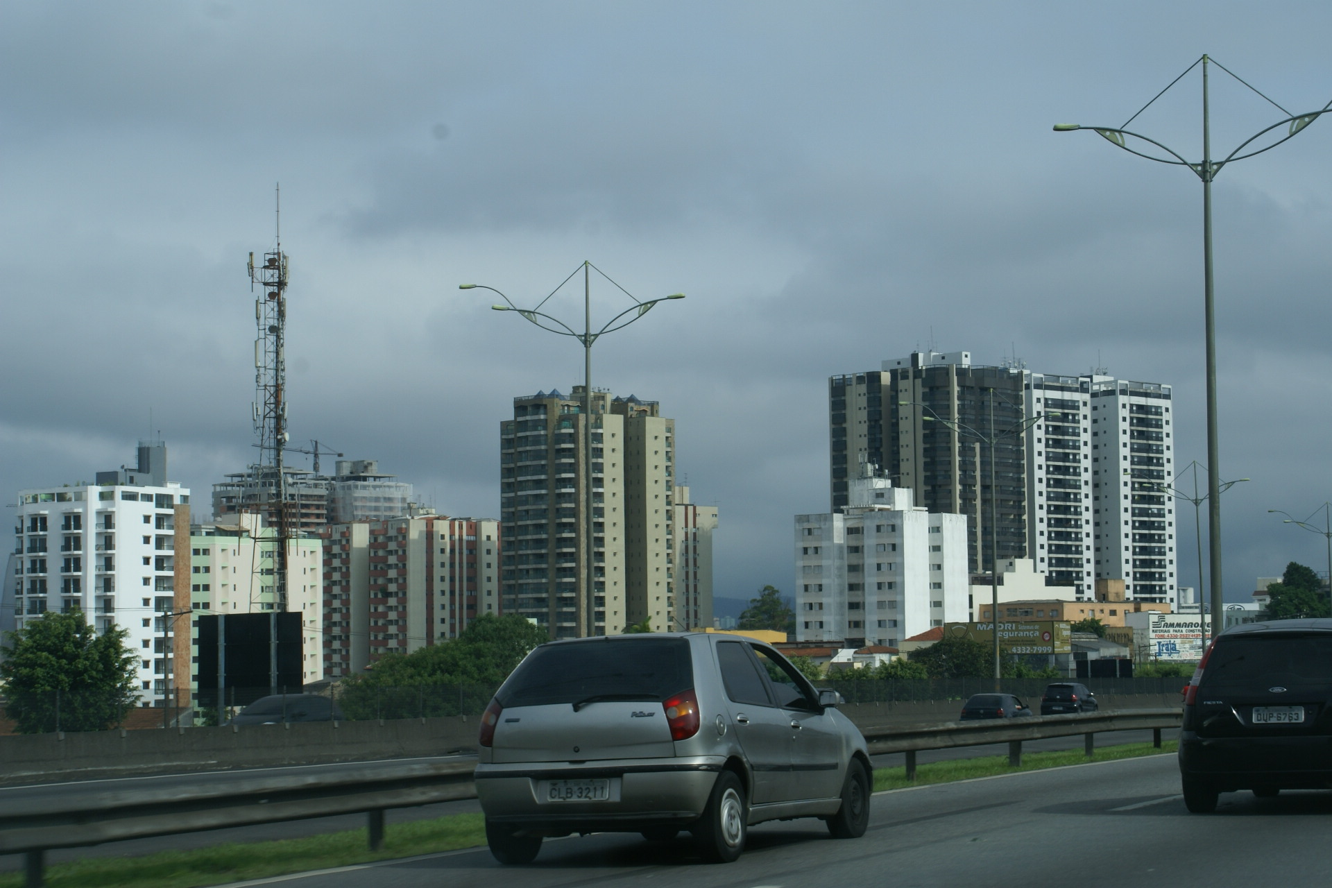 Buildings in São Bernardo do Campo City, Brazil.